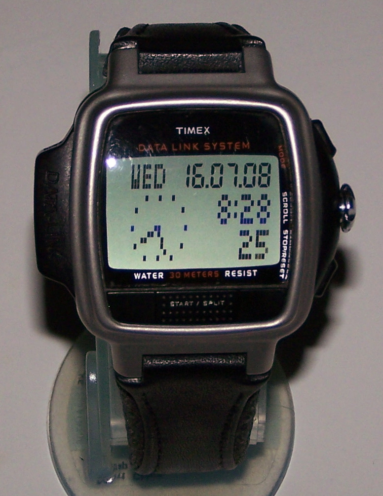 Please see filename